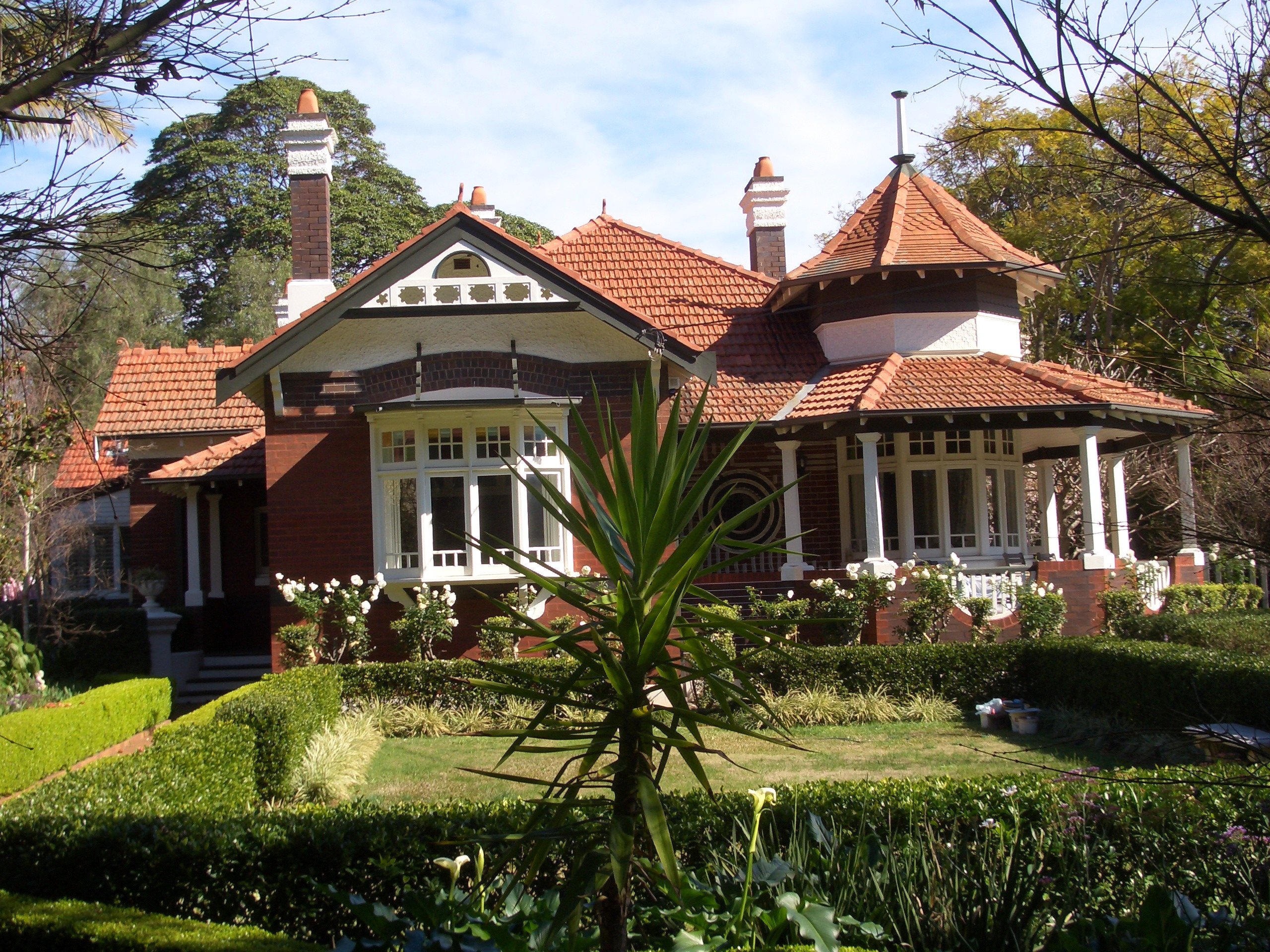 Appian Way, Burwood, Sydney